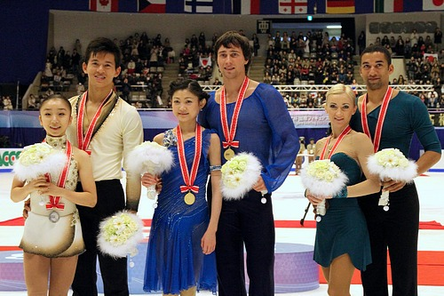 The pairs podium at the 2011 NHK Trophy. From left: Narumi Takahashi / Mervin Tran(2nd), Yuko Kawaguchi / Alexander Smirnov (1st), Aliona Savchenko / Robin Szolkowy(3rd)